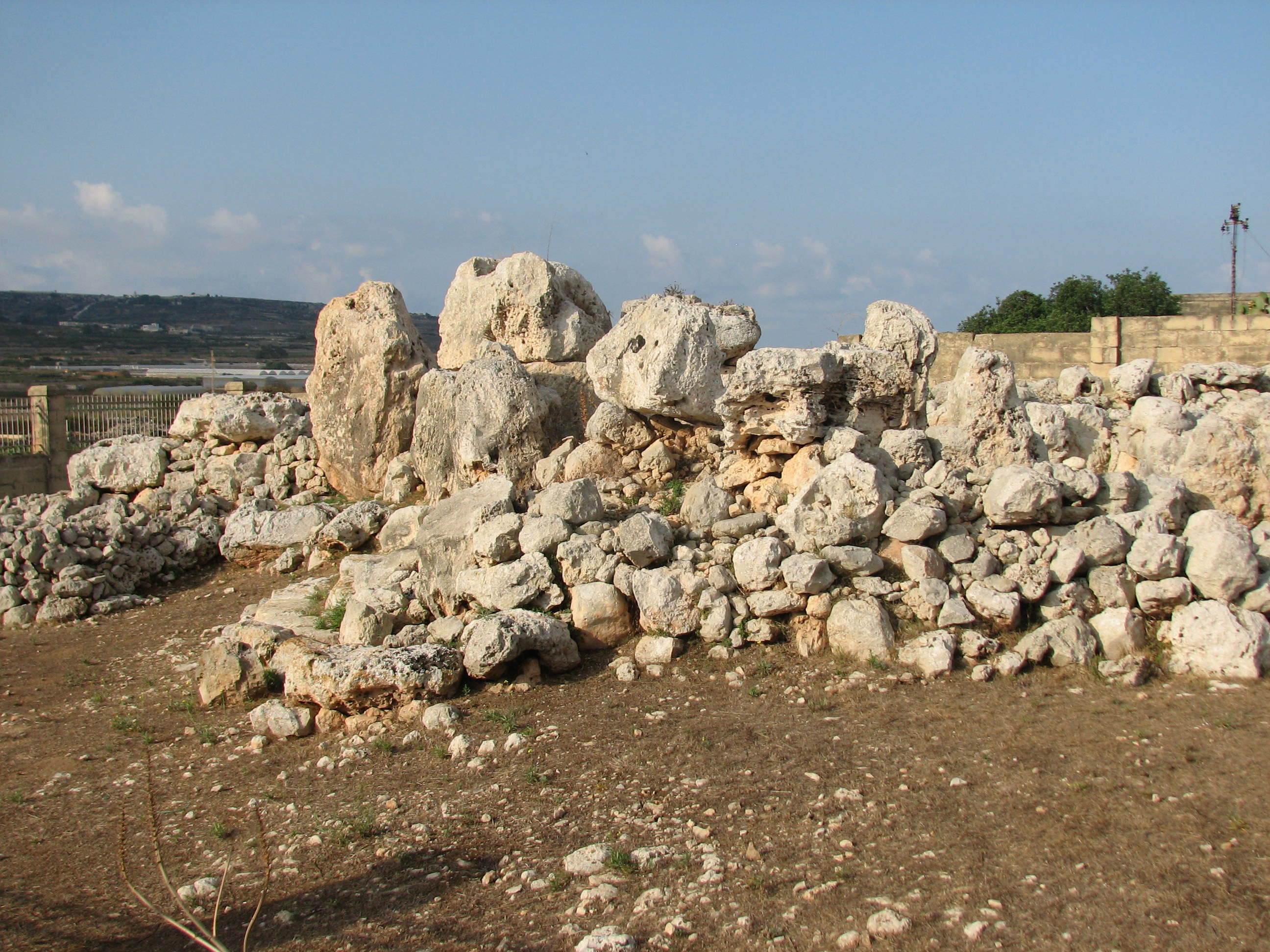 Ta' Ħaġrat Temple in Malta.